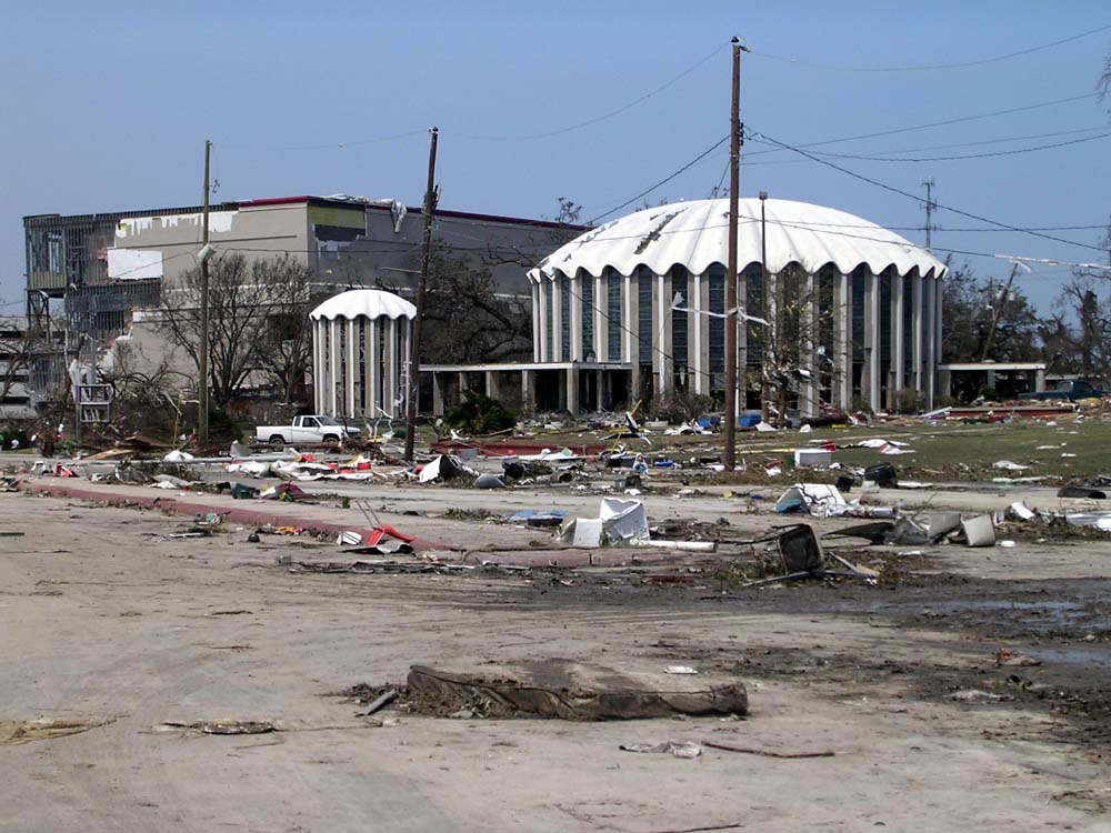 Hurricane Katrina photo of former Grand Casino Biloxi on U.S. Highway 90 in Biloxi, Mississippi. NOAA photo from prepared by the National Oceanic and Atmospheric Administration.